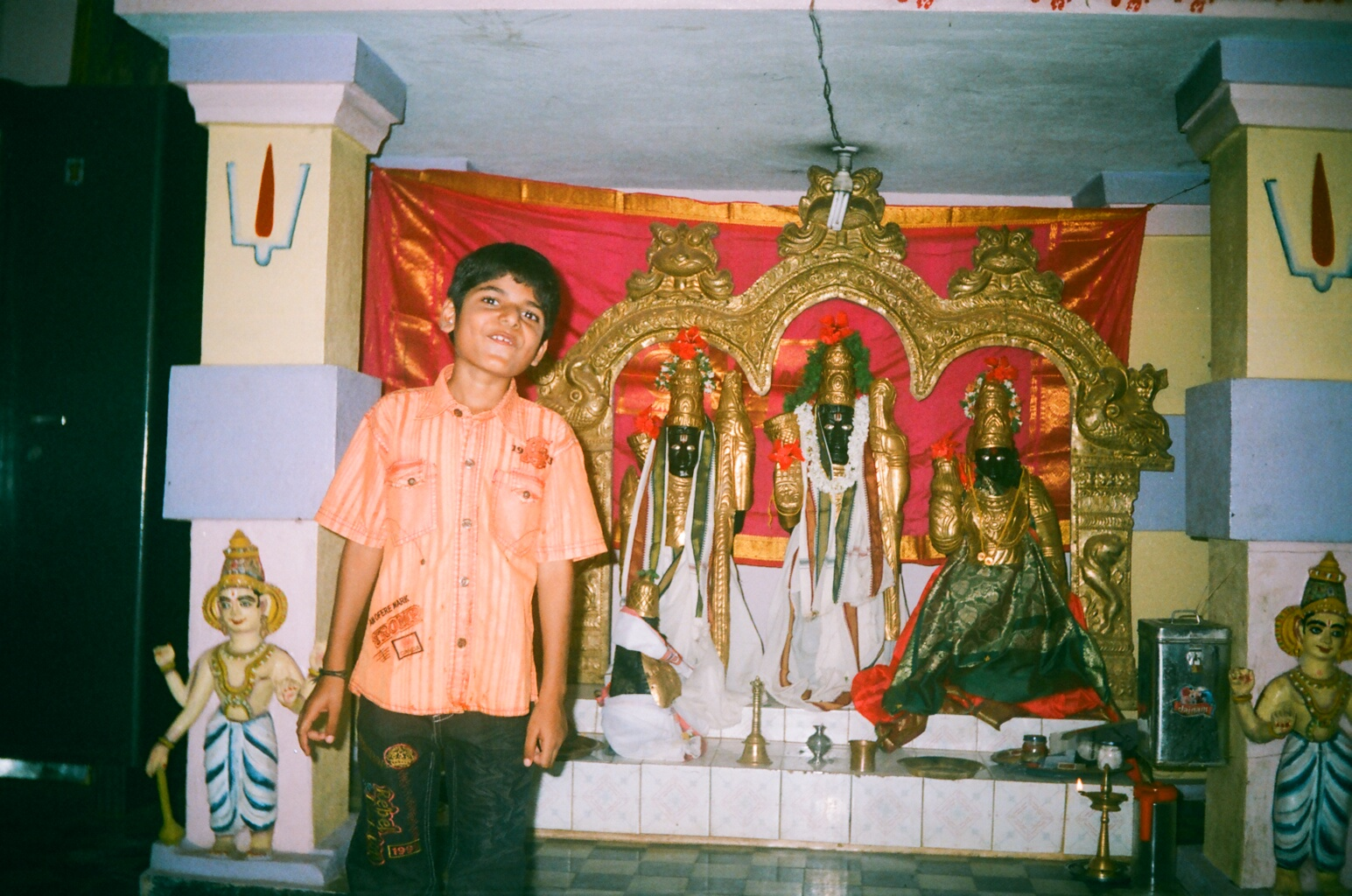 Makarathoranam